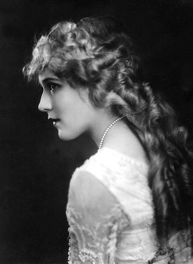 Studio portrait of actress Mary Pickford circa 1918.